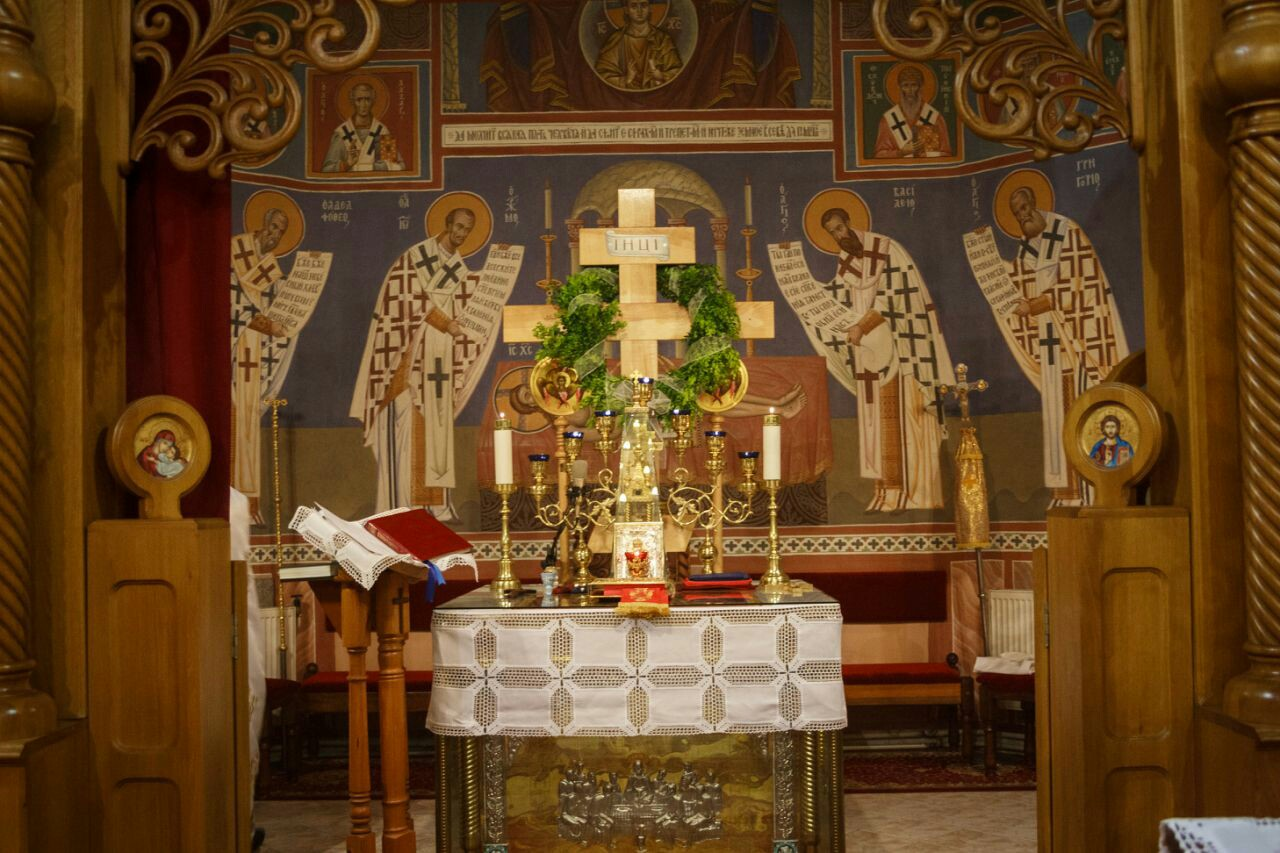 Saints Cyril and Methodius Orthodox Church, Michalovce (interior)